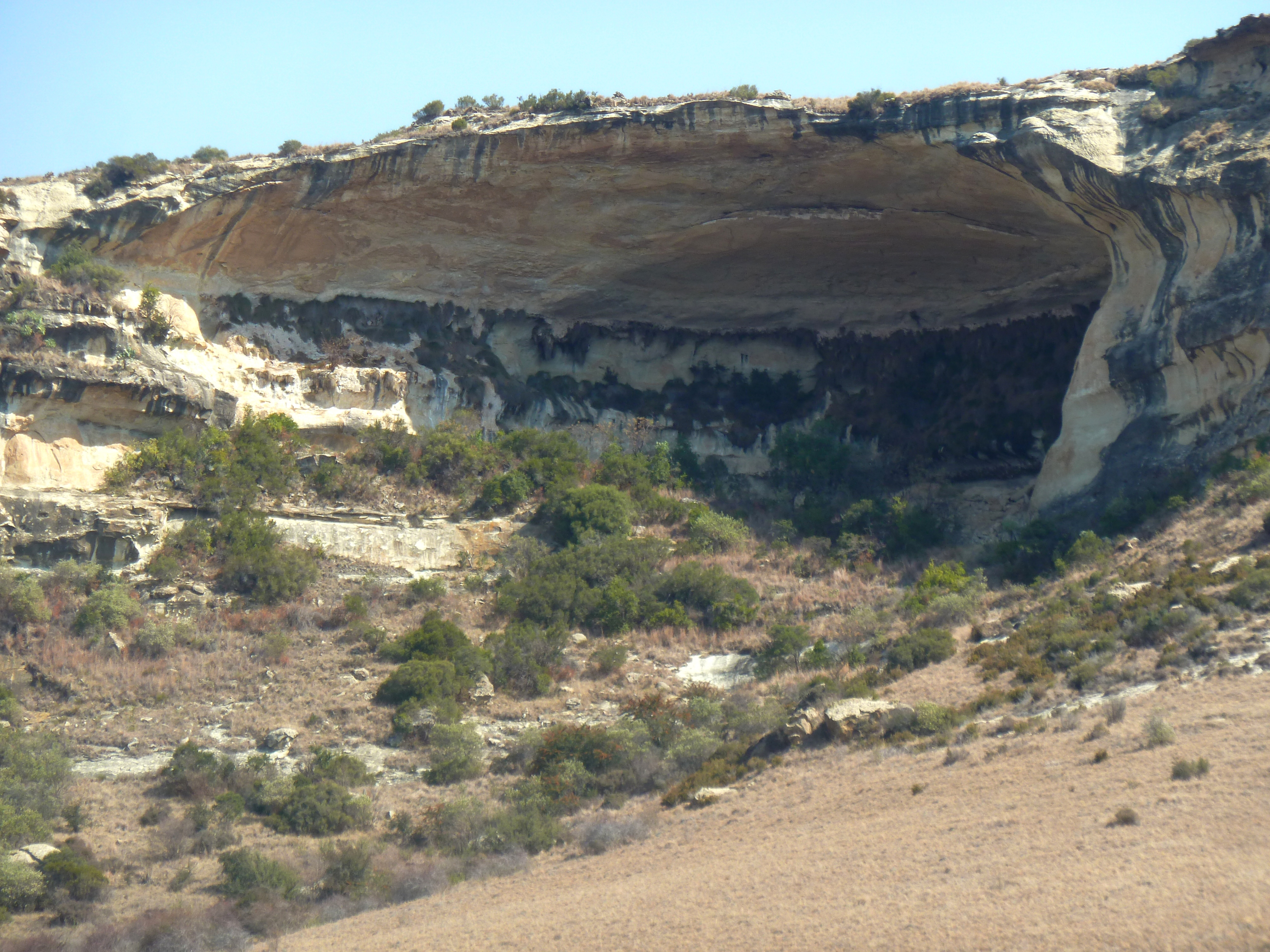 Sandstone cave in the Rooiberge range, near Clarens, eastern Free State